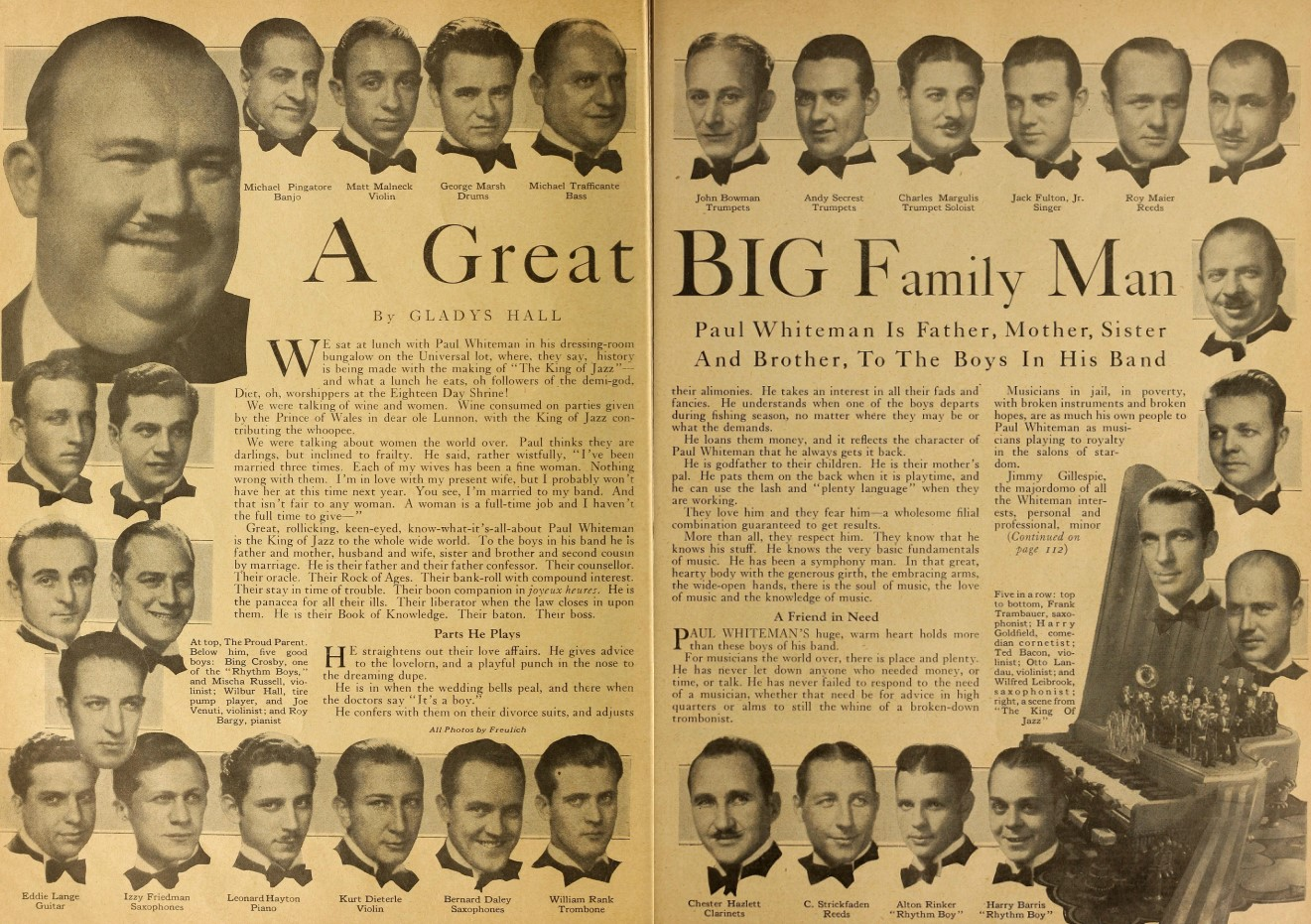 Paul Whiteman with members of his orchestra left: Paul Whiteman Bing Crosby: Rhythm Boy Mischa Russell: violinist Wilbur Hall: tire pump player Joe Venuti: violinist Roy Bargy: pianist bottom: Eddie Lang: guitar Izzy Friedman: saxophones Leonard Hayton: piano Kurt Dieterle: violin Bernard Daley: saxophones William Rank: trombone Chester Hazlett: clarinets C. Strickfaden: reeds Alton Rinker: Rhythm Boy Harry Barris: Rhythm Boy top Michael Pingatore: banjo Matt Malneck: violin George Marsh: drums Michael Trafficante: bass John Bowman: trumpets Andy Secrest: trumpets Charles Margulis: trumpet soloist Jack Fulton, Jr.: singer Roy Maier: reeds right Frank Trambauer: saxophonist Harry Goldfield: comedian cornetist Ted Bacon: violinist Otto Landau: violinist Wilfred Leibrook: saxophonist